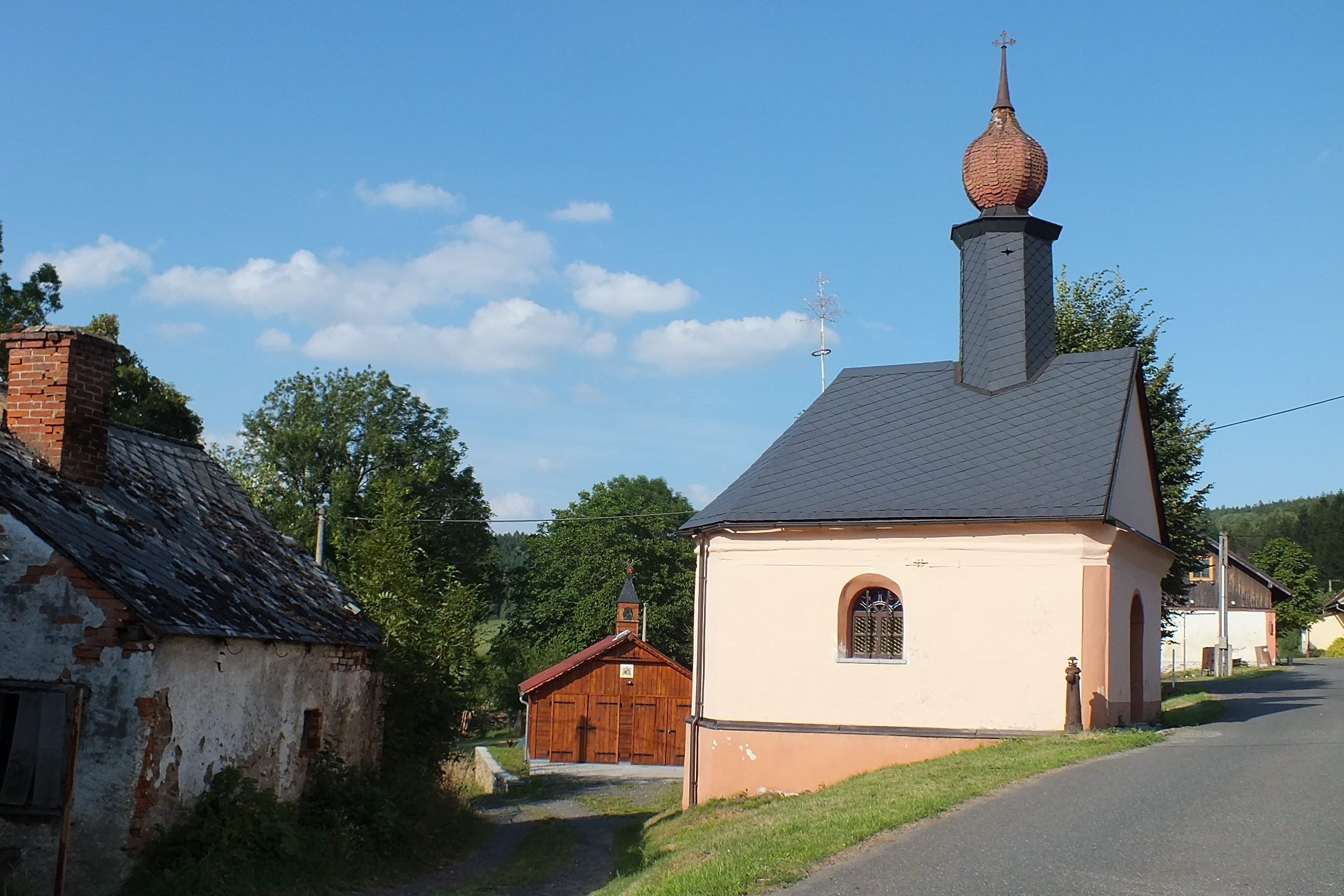 The village of Žiznětice.